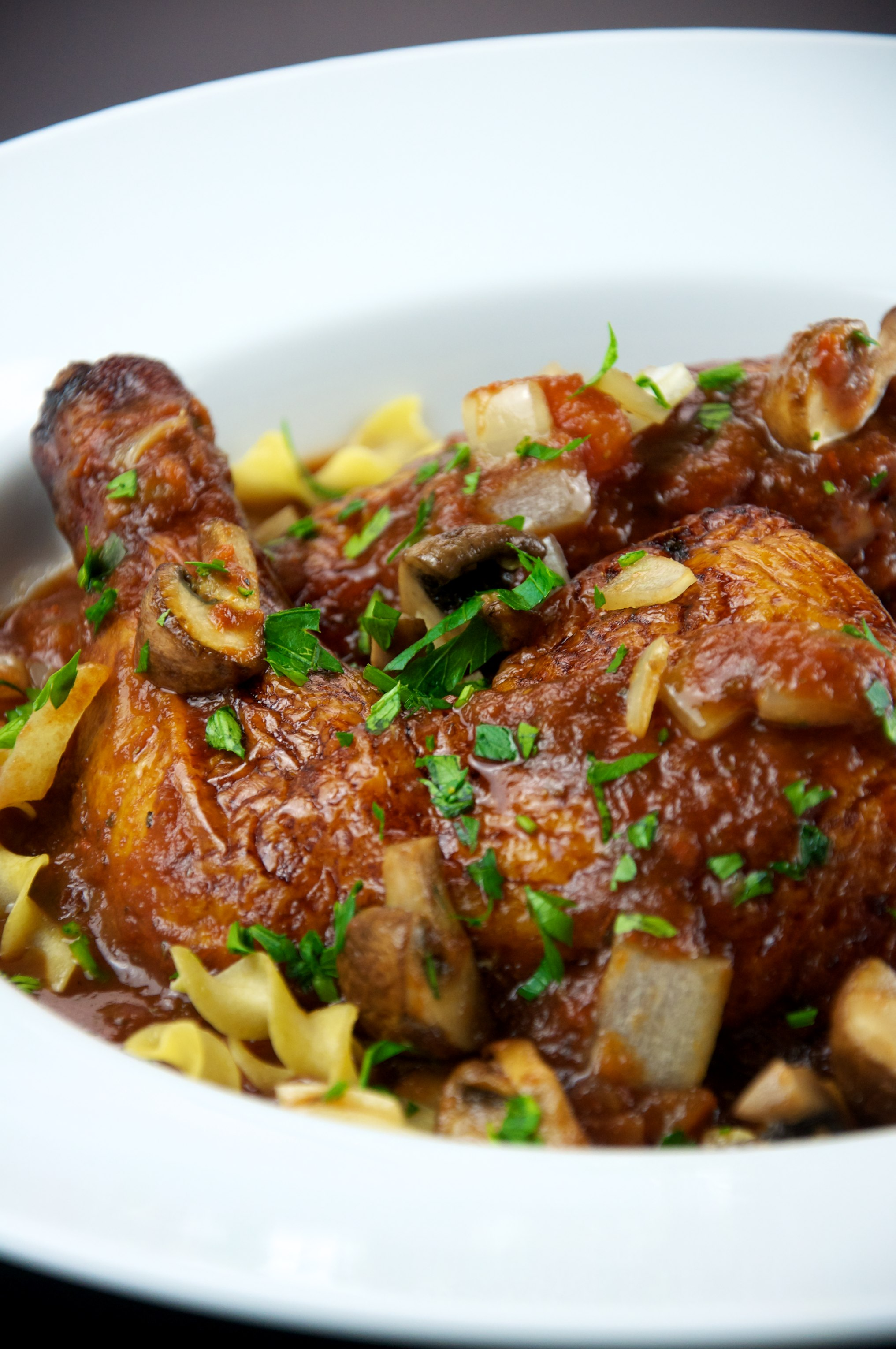 Chicken cacciatore, made with mushrooms, onions, and tomatoes, garnished with parsley, and served over pasta noodles. Photographed in the Oakmore neighborhood of Oakland, California, USA.